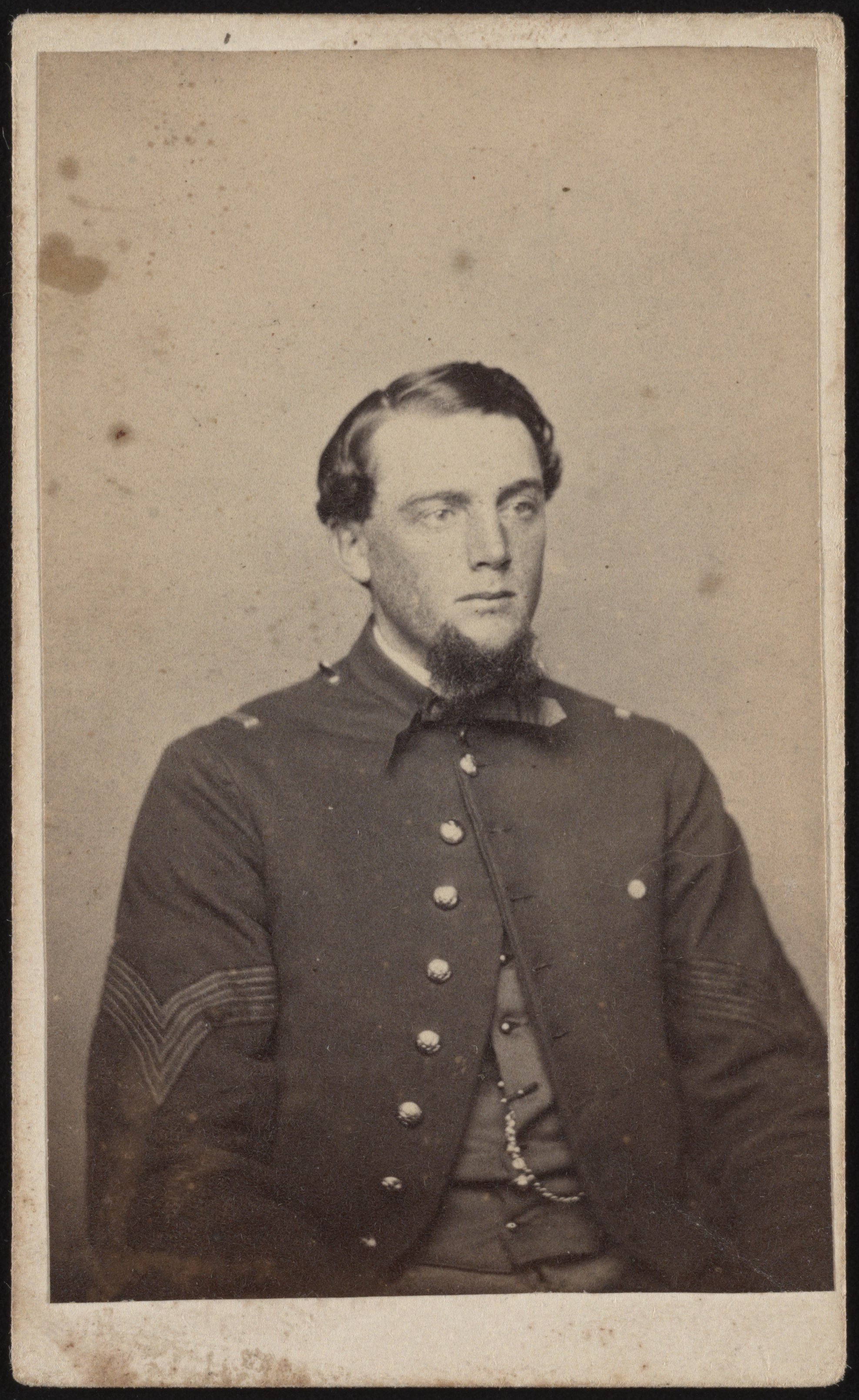 Title: First Sergeant Henry S. Dean of Co. G, 2nd Connecticut Heavy Artillery Regiment in uniform] / Wolff's Gallery, 10 Royal St., Alexandra, Va Abstract/medium: 1 photograph : albumen print on card mount ; mount 10 x 6 cm (carte de visite format)